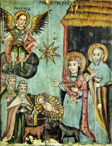 The Nativity of Christ. 1746.